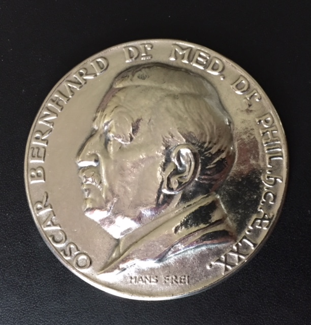 Silver medal issued for Dr. Med Oscar Bernhard's 70th birthday. Others also in bronze.